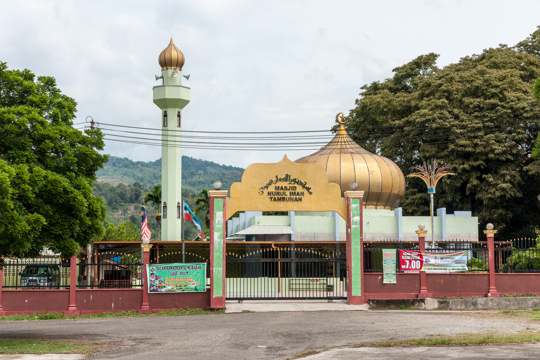 Tambunan, Sabah: Masjid Nurul Iman - Mosque near the District Office